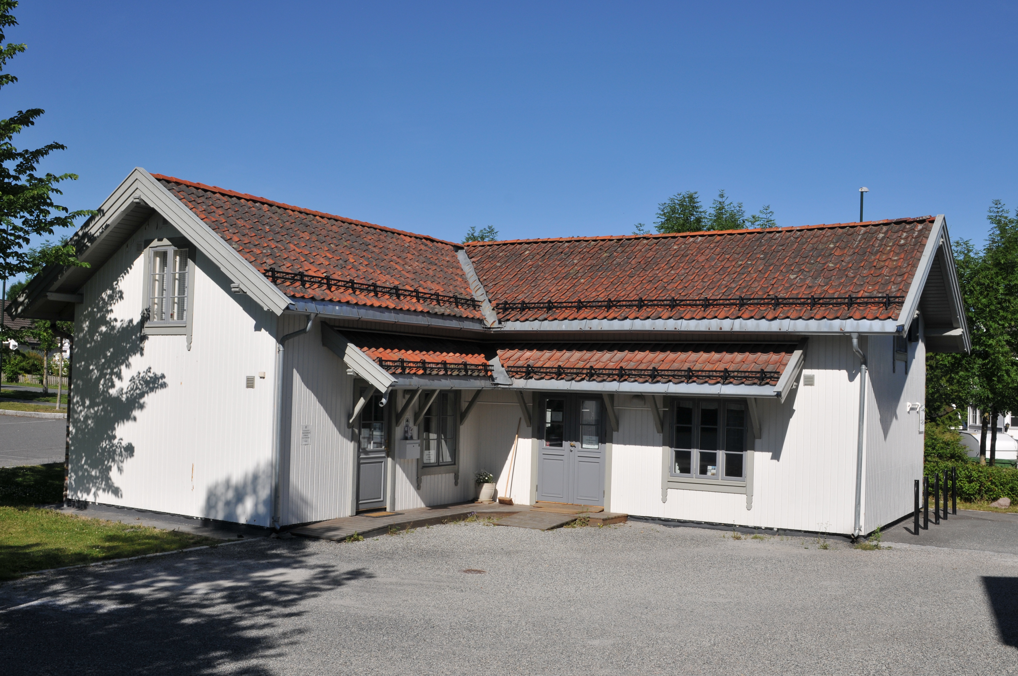 Hasselnøtten at Hasselbakken in Askerveien 47, Asker, Norway